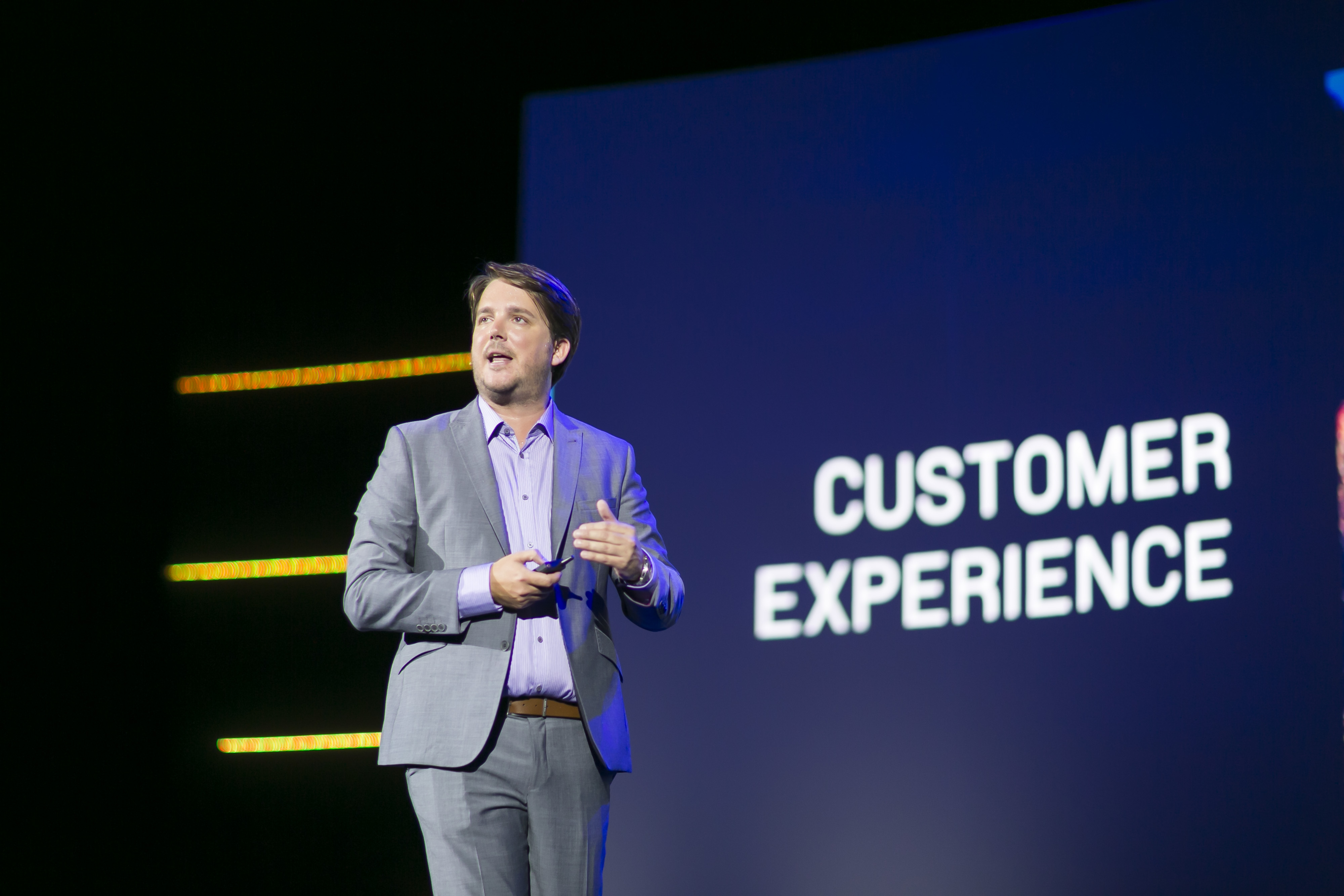 Chris Riddell Futurist